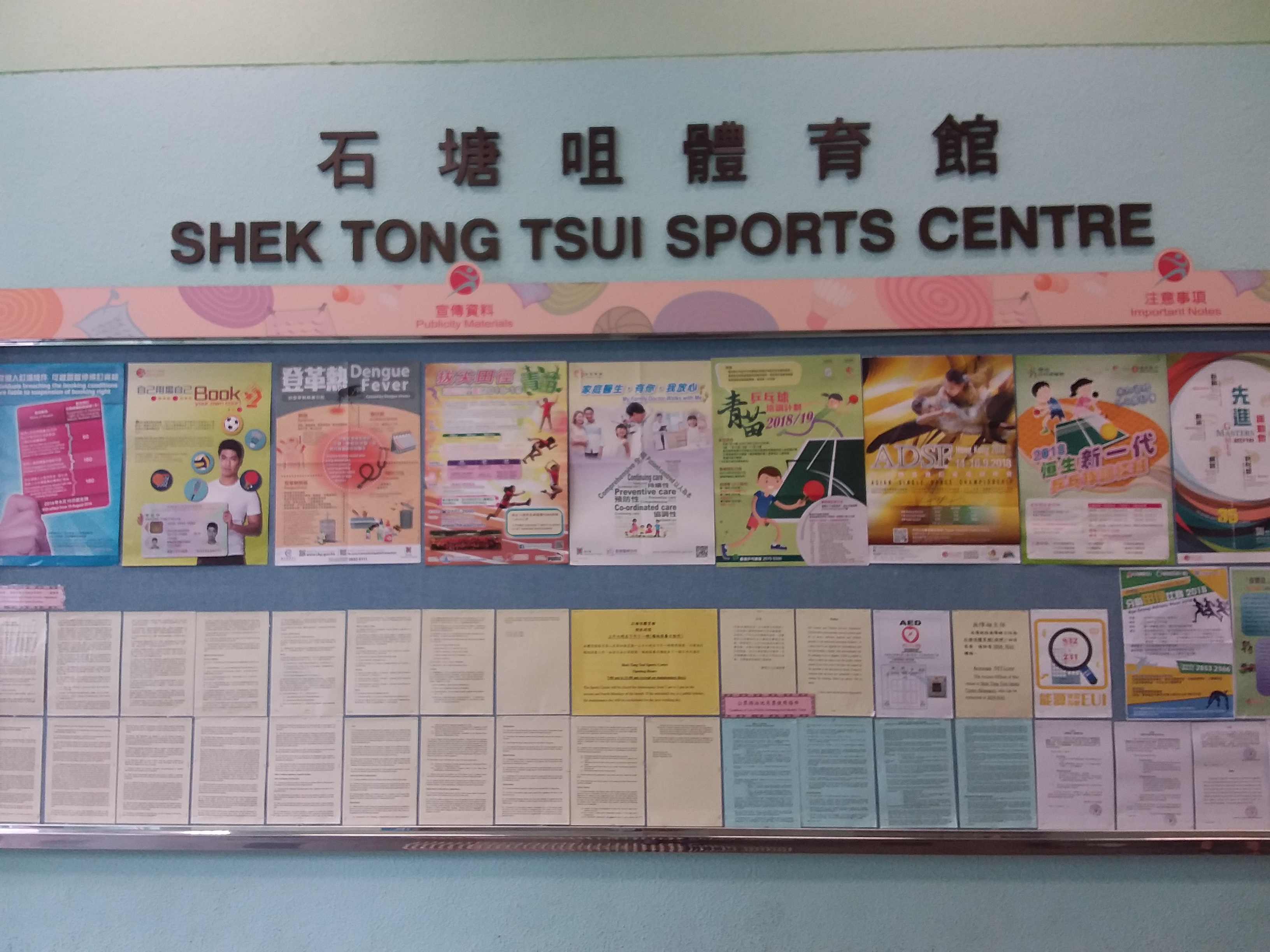 HK 石塘咀 Shek Tong Tsui Sports Centre LCSD notice board posters in August 2018